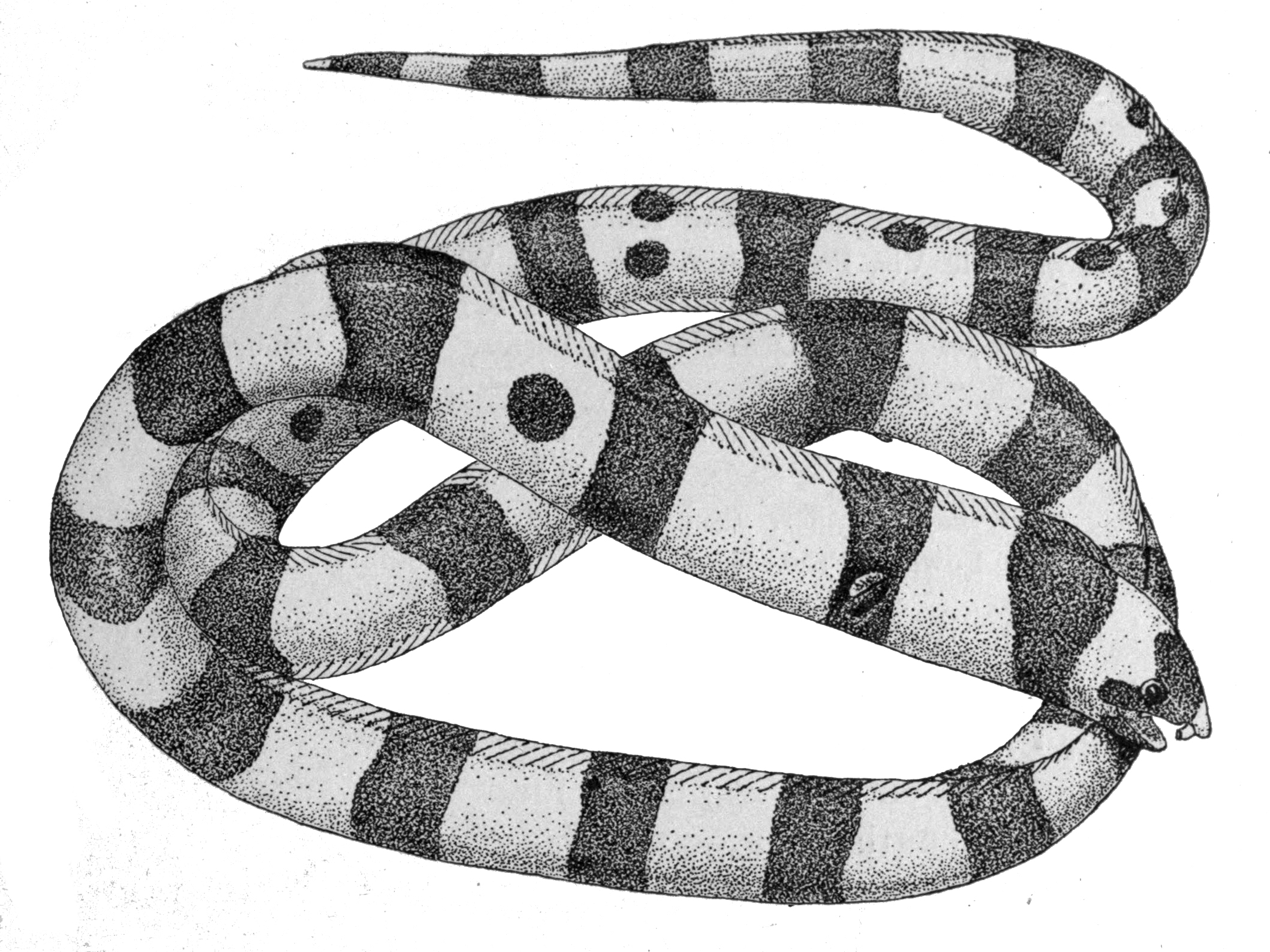 Myrichthys colubrinus